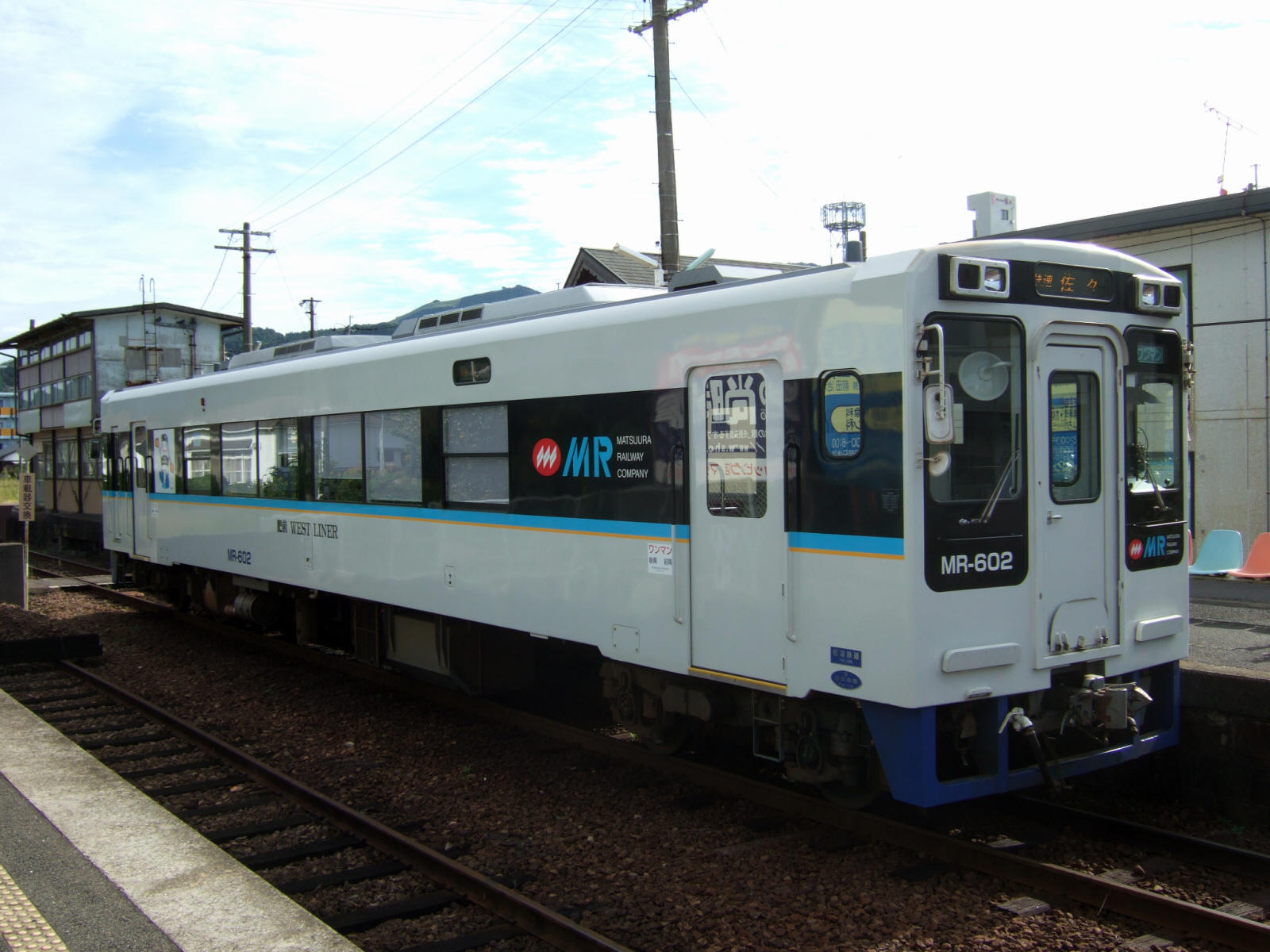 松浦鉄道MR-600形気動車（佐々駅にて） Matsuura Railway MR-600 DC(Saza Station)